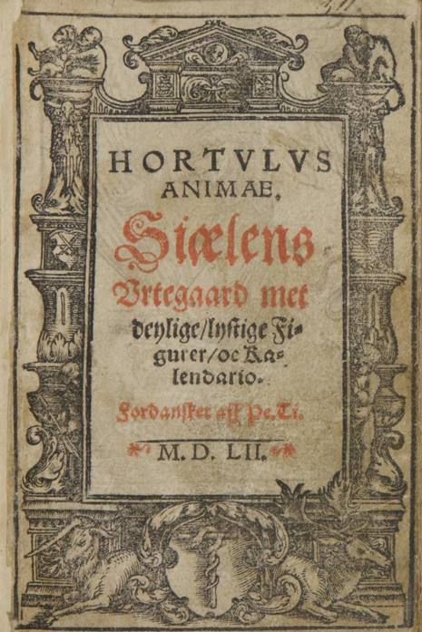 Hortulus Animae (en: Little Garden of the Soul, Seelengärtlein, Jardin des Âmes, Raj duszny) was the Latin title of a prayer book also available in German. It was very popular in the early sixteenth century, printed in many versions, also abroad in Lyons and Kraków.